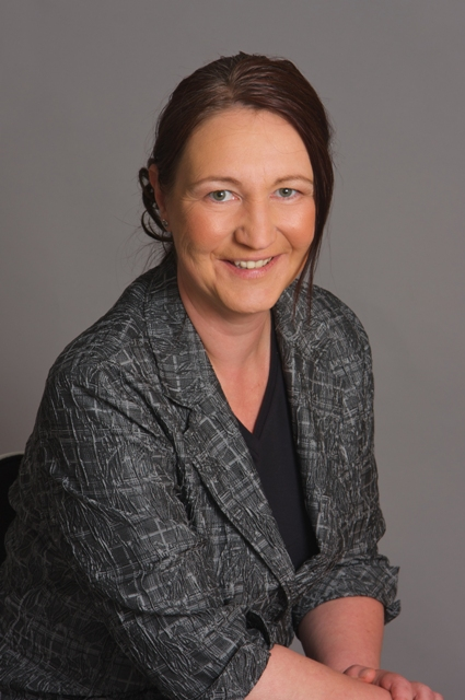 Gitta Schüßler, German politican of the National Democratic Party of Germany (NPD).